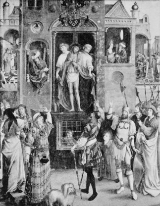 Painting stolen from the church 13 september 1914 just before the church was set on fire